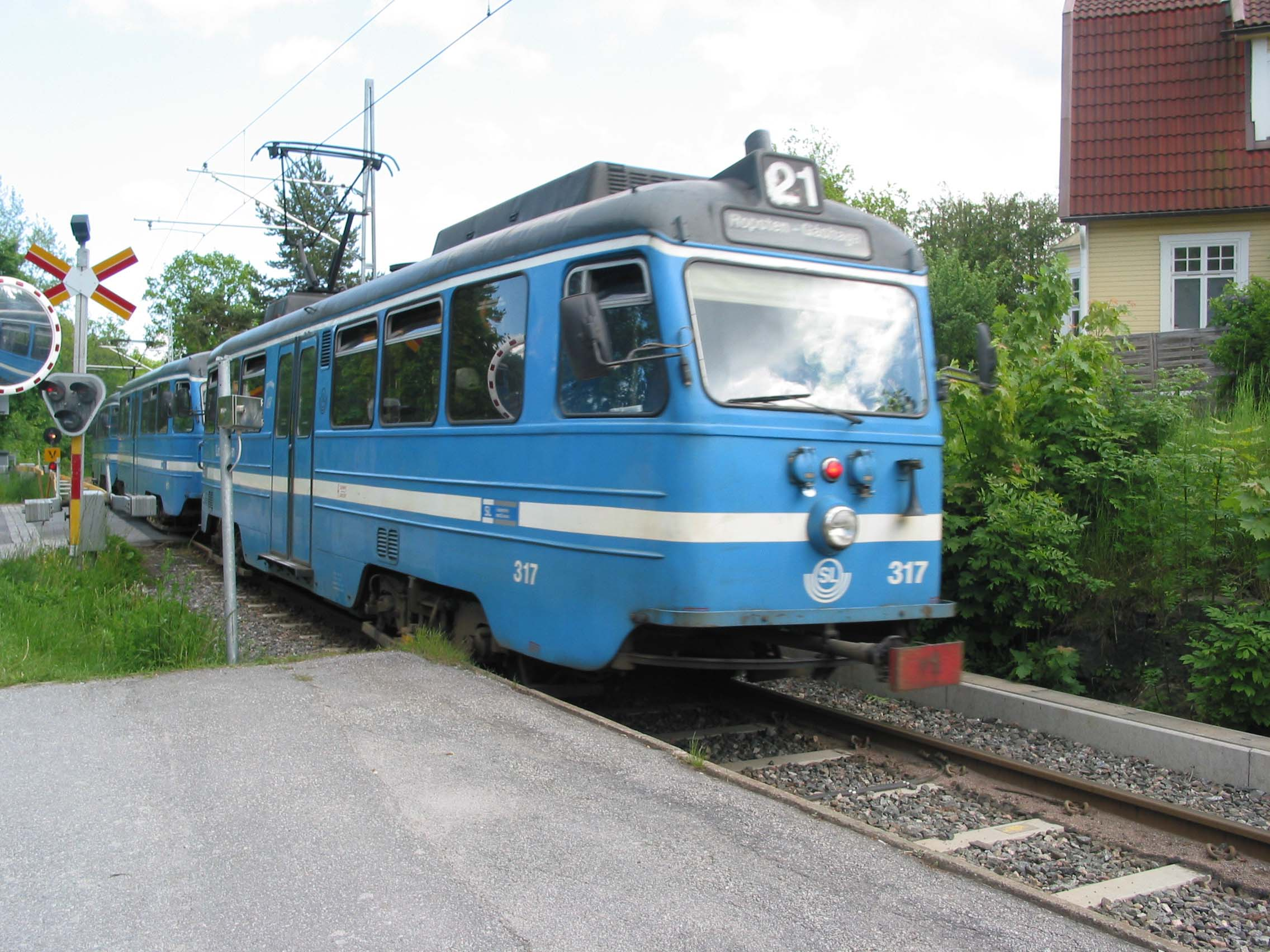 SL A30B 317 on the Lidingöbanan leaving Kottla station.